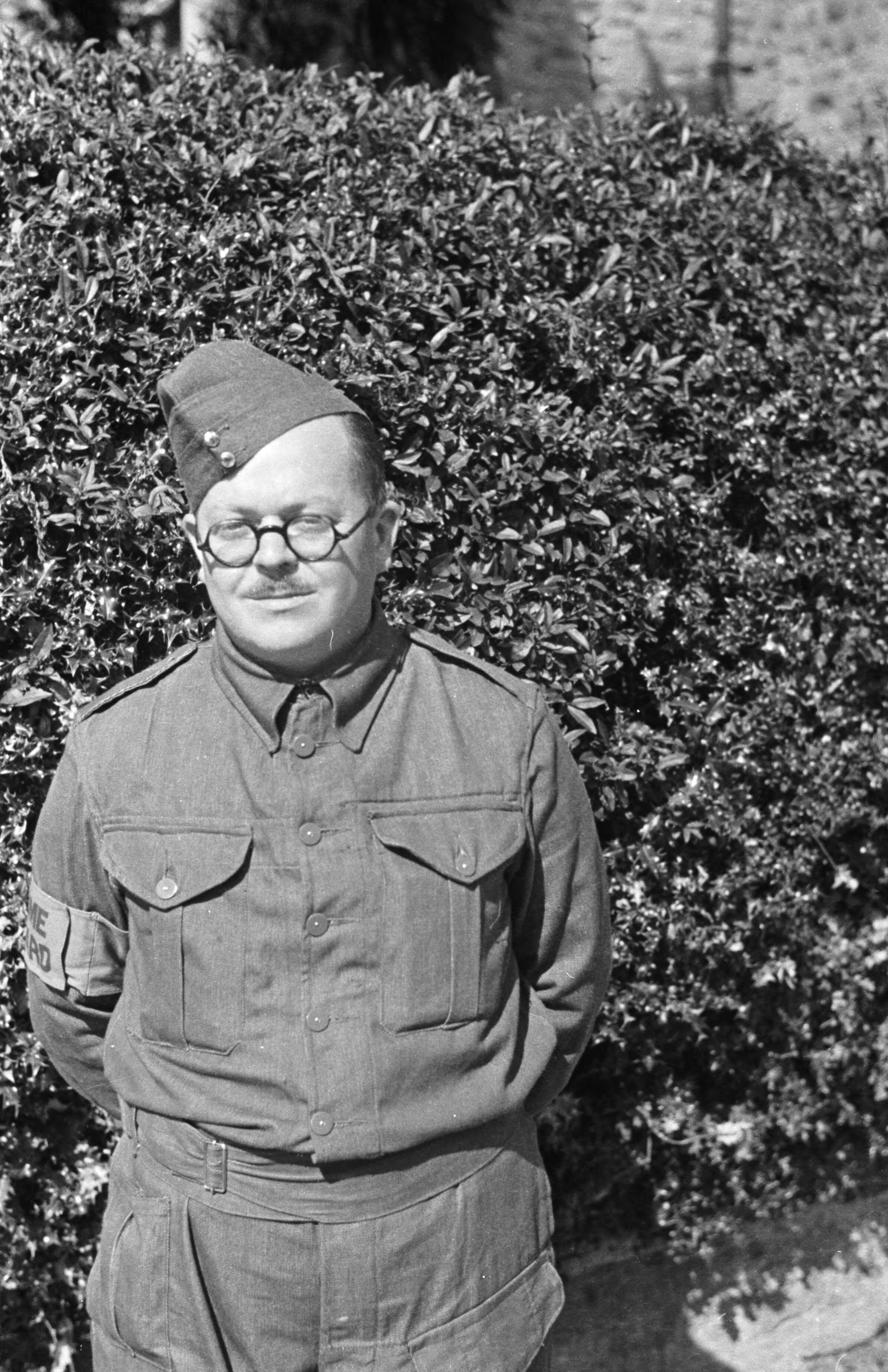 Photographs by Welsh photo journalist Geoff Charles Llandyssil Home Guard, Montgomeryshire, after a Church Parade at Llandyssil Parish Church